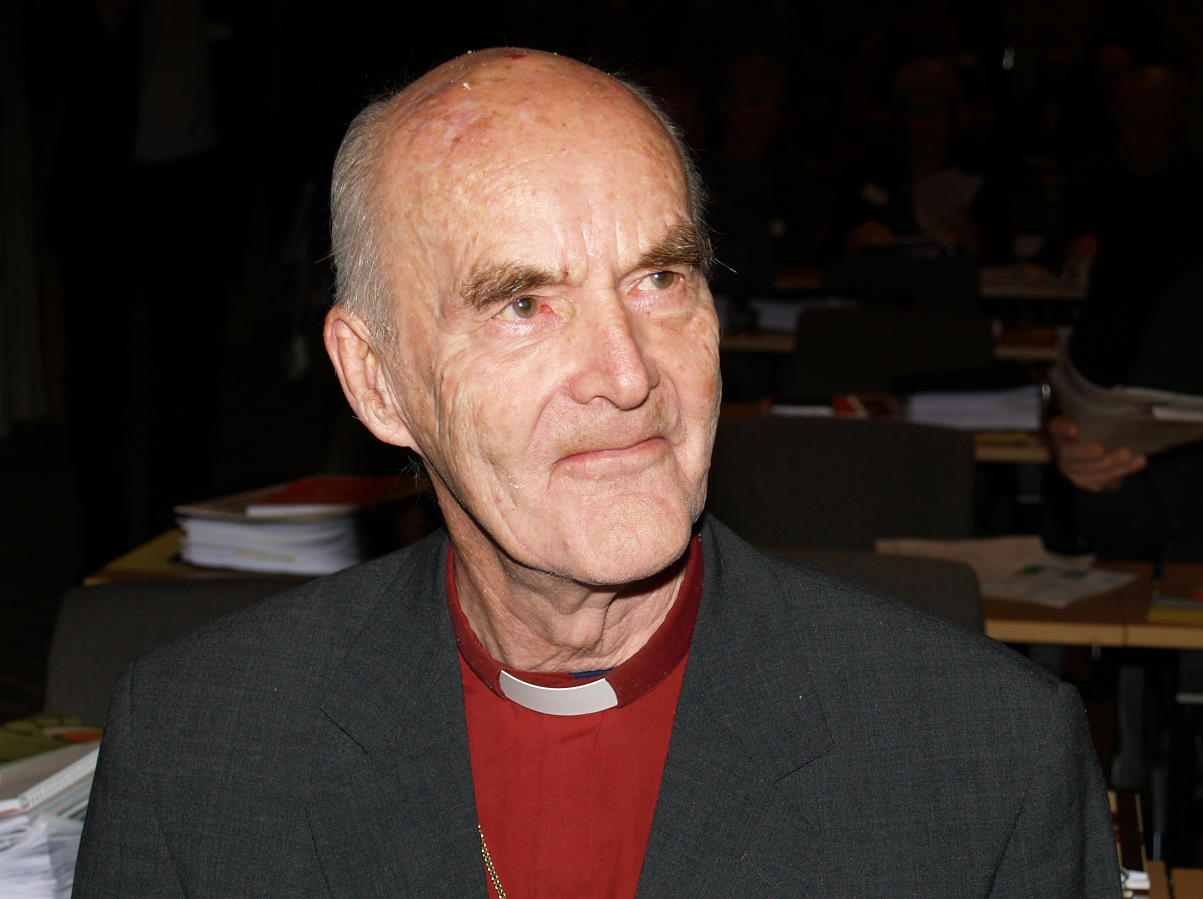 Bishop Emeritus Martin Lönnebo (2007)